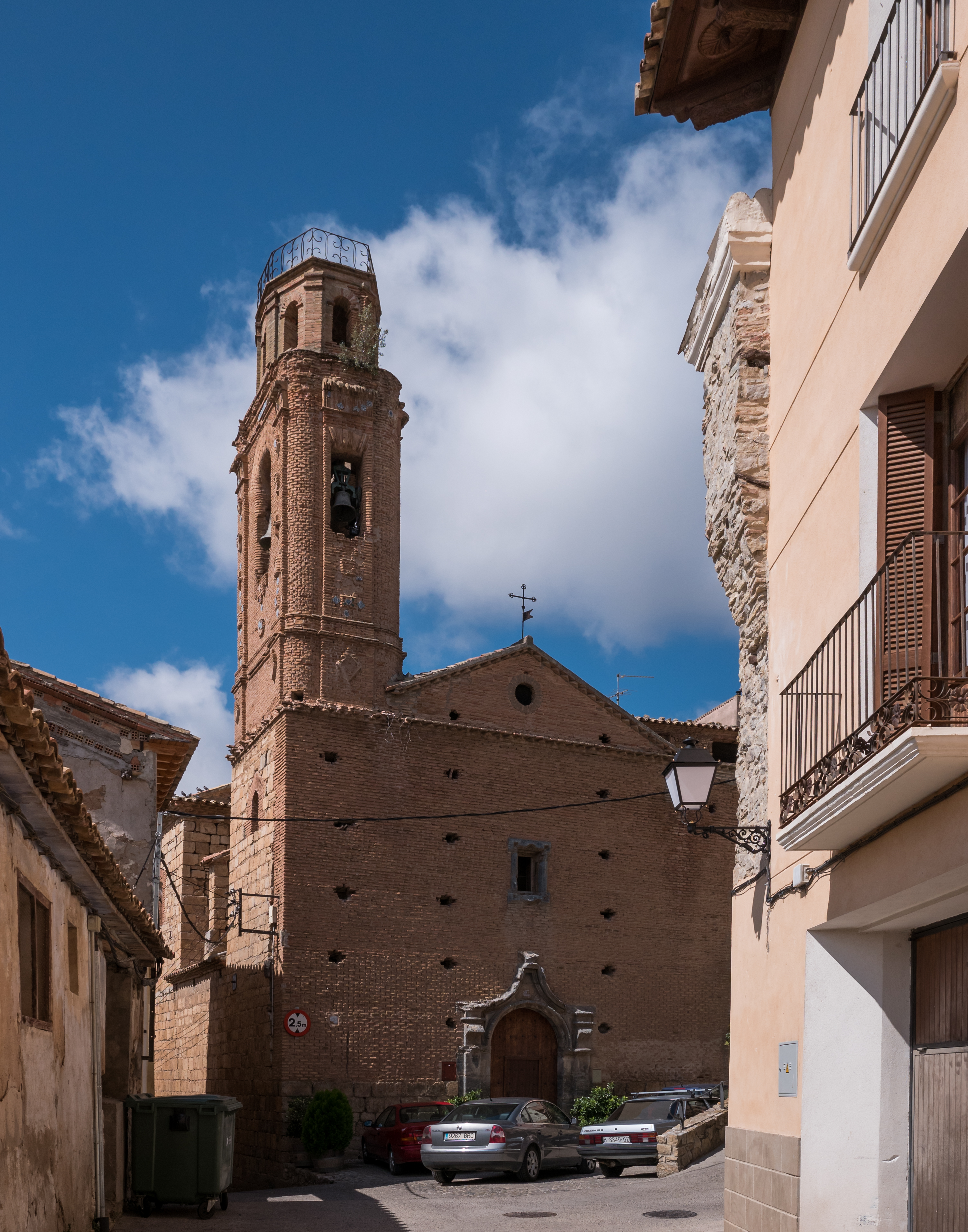 Church of Estada, Huesca, Aragon, Spain